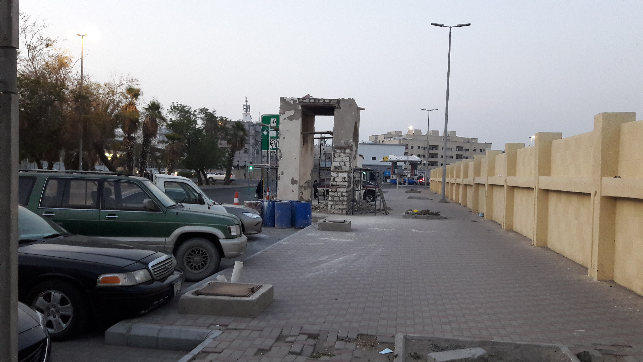 Tomb of Eve, Jeddah